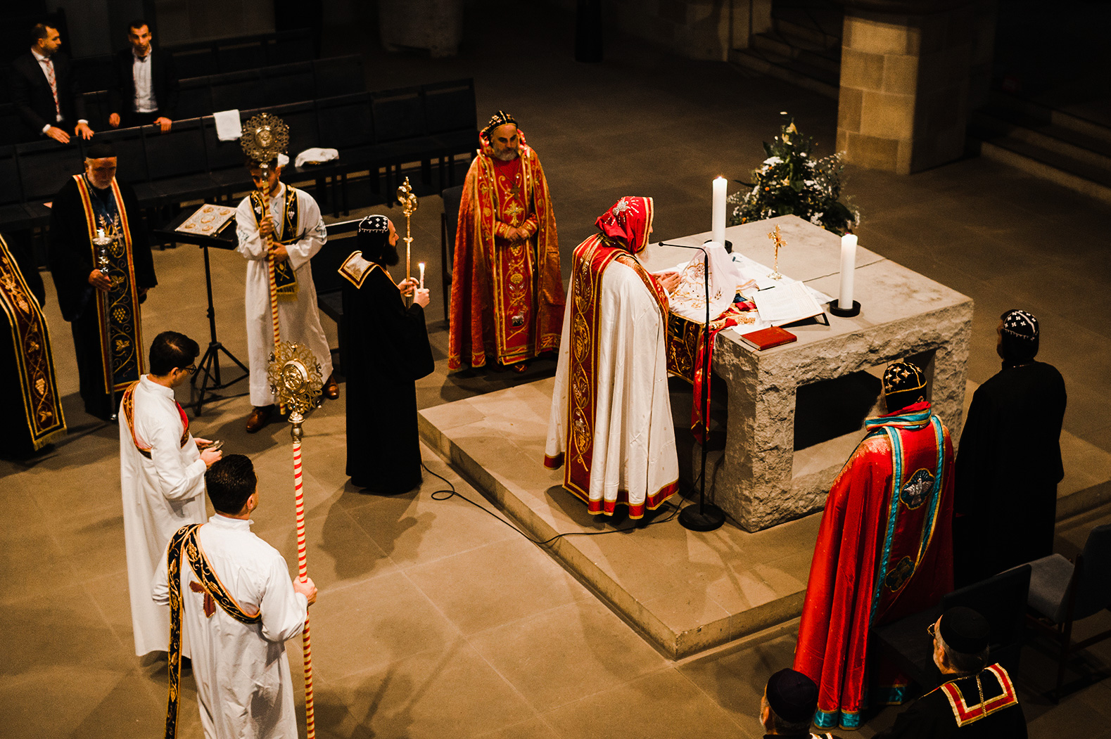 On September 22nd 2018, His Holiness Patriarch Mor Ignatius Aphrem II celebrated a special Holy Qurobo for the participants of the World Conference on Business for Suryoye in Stuttgart, Germany.